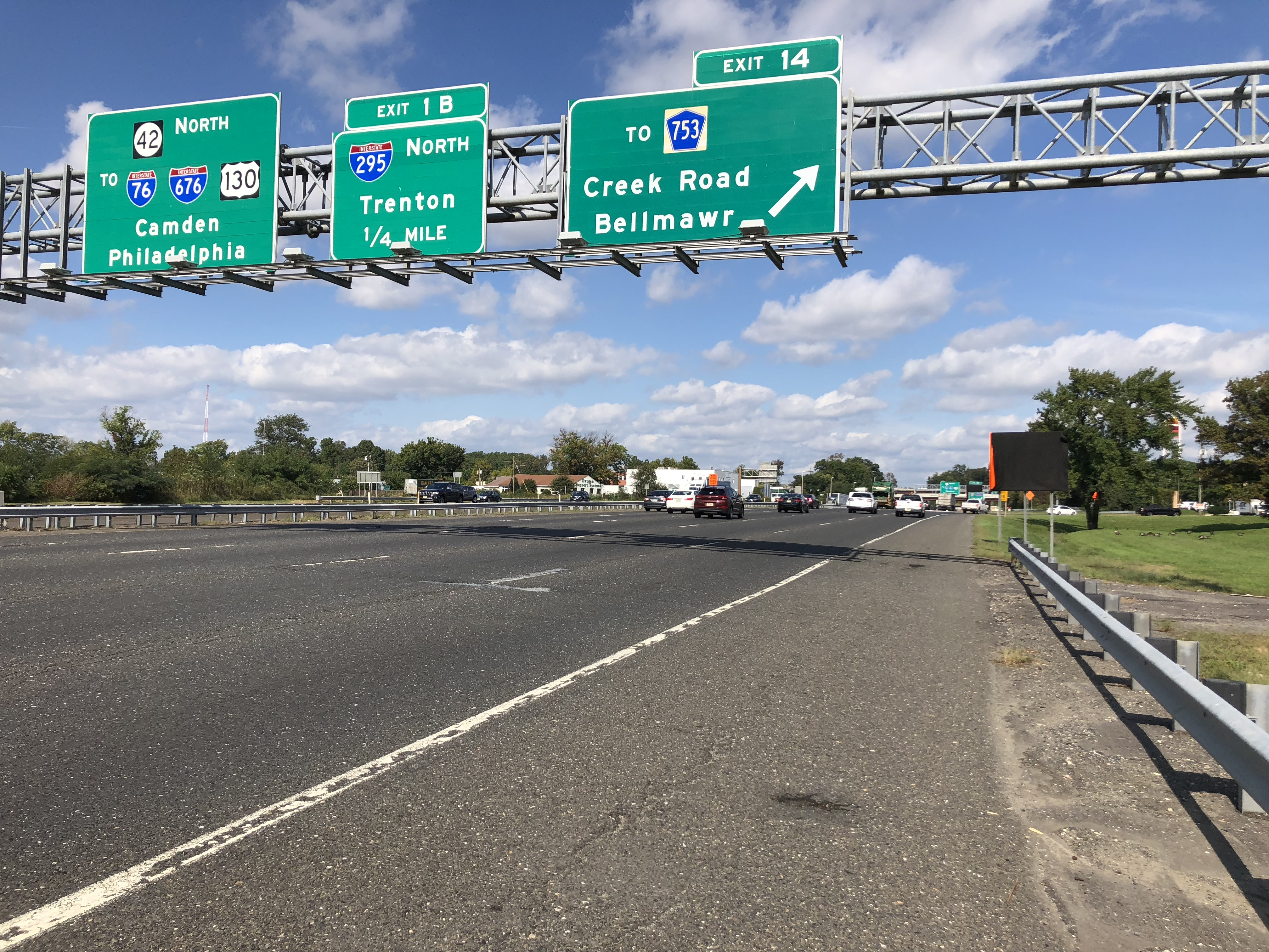 View north along New Jersey State Route 42 (North-South Freeway) at Exit 14 (To Camden County Route 753, Creek Road, Bellmawr) in Bellmawr, Camden County, New Jersey